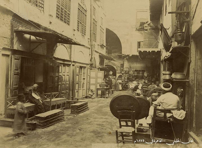 Khan Elkhalili - Cairo 1875